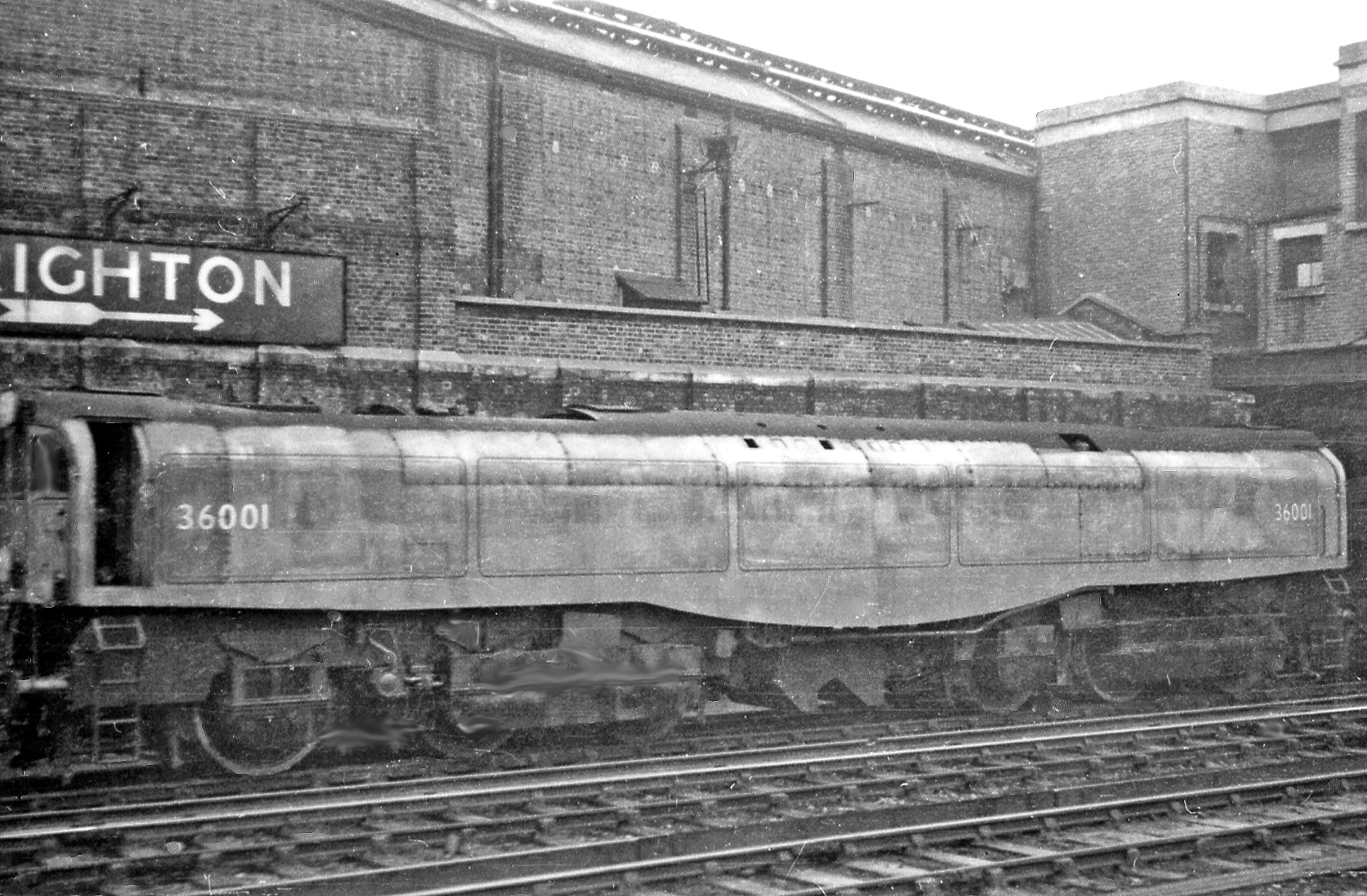 Bulleid's first 'Leader' at Brighton Locomotive Depot, 1949Seen from a train just outside Brighton Station, this rather poor snap was nevertheless an unusual 'cop'. No. 36001 was the prototype of Bulleid's revolutionary design of steam engine, nominally an 0-6-6-0T, and the only example that was actually completed (in 6/49). It ran a number of trials on the Southern Region for some months, but never worked a service train before the project was cancelled in 1951 owing to its various serious drawbacks. EPSON scanner image